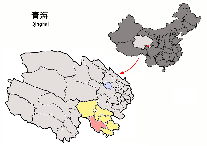 Location of Darlag County (pink) and Golog Prefecture (yellow) within Qinghai province of China Map drawn in september 2007 using various sources, mainly : Qinghai province administrative regions GIS data: 1:1M, County level, 1990 Qinghai Counties map from "Plateau Perspectives" (the limits of some county-level subdivisions may not be accurate)